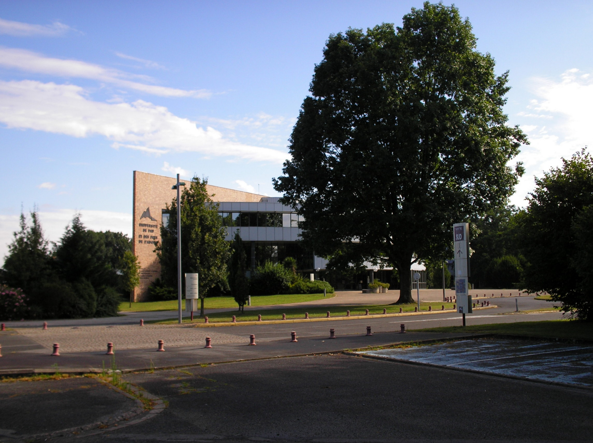 Photograph of Présidence building in UPPA